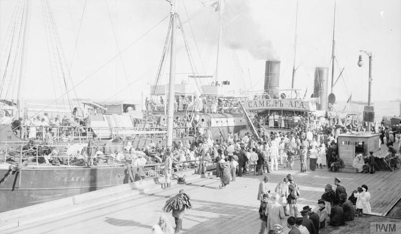 Refugees leaving the town of Baku, 1918